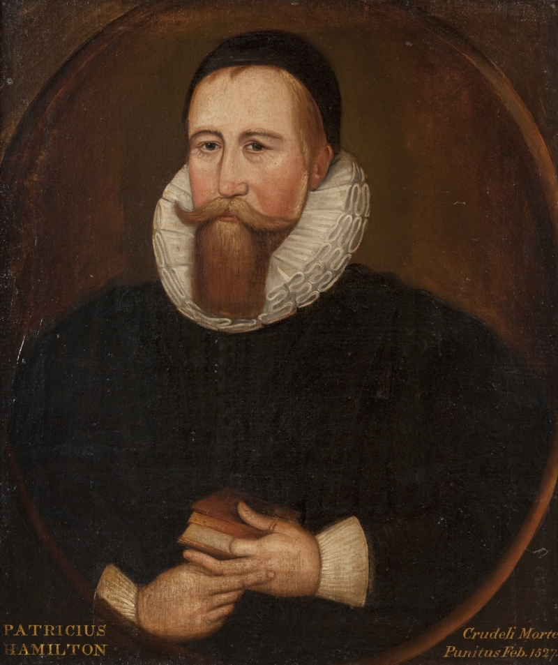 This is an oil painting of Scottish Protestant martyr, John Hamilton. There are no other known portraits of him.